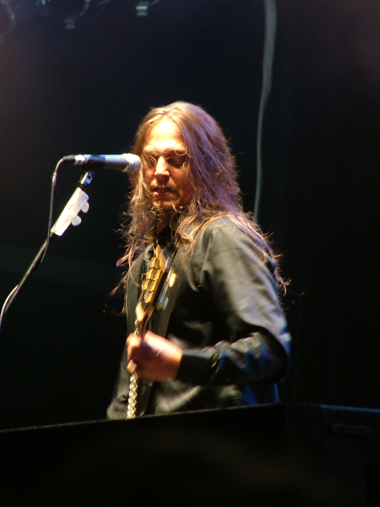 Swedish metal band Pain at the Metalcamp in Tolmin; Peter Tägtgren